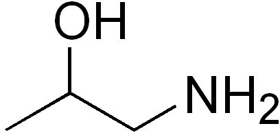 chemical structure of 1-amino-2-propanol